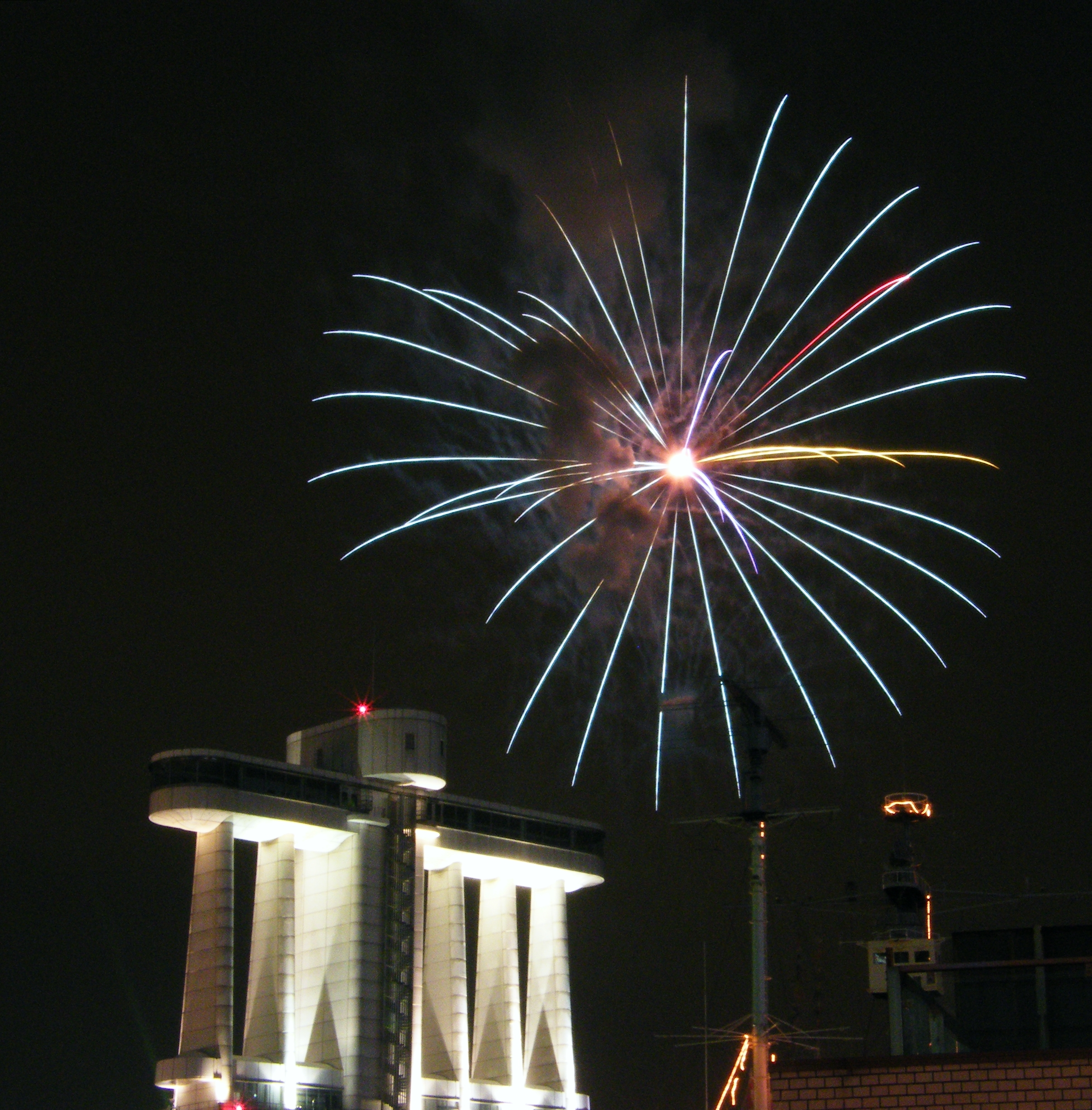 Nagoya Port Fireworks - 名古屋港花火大会